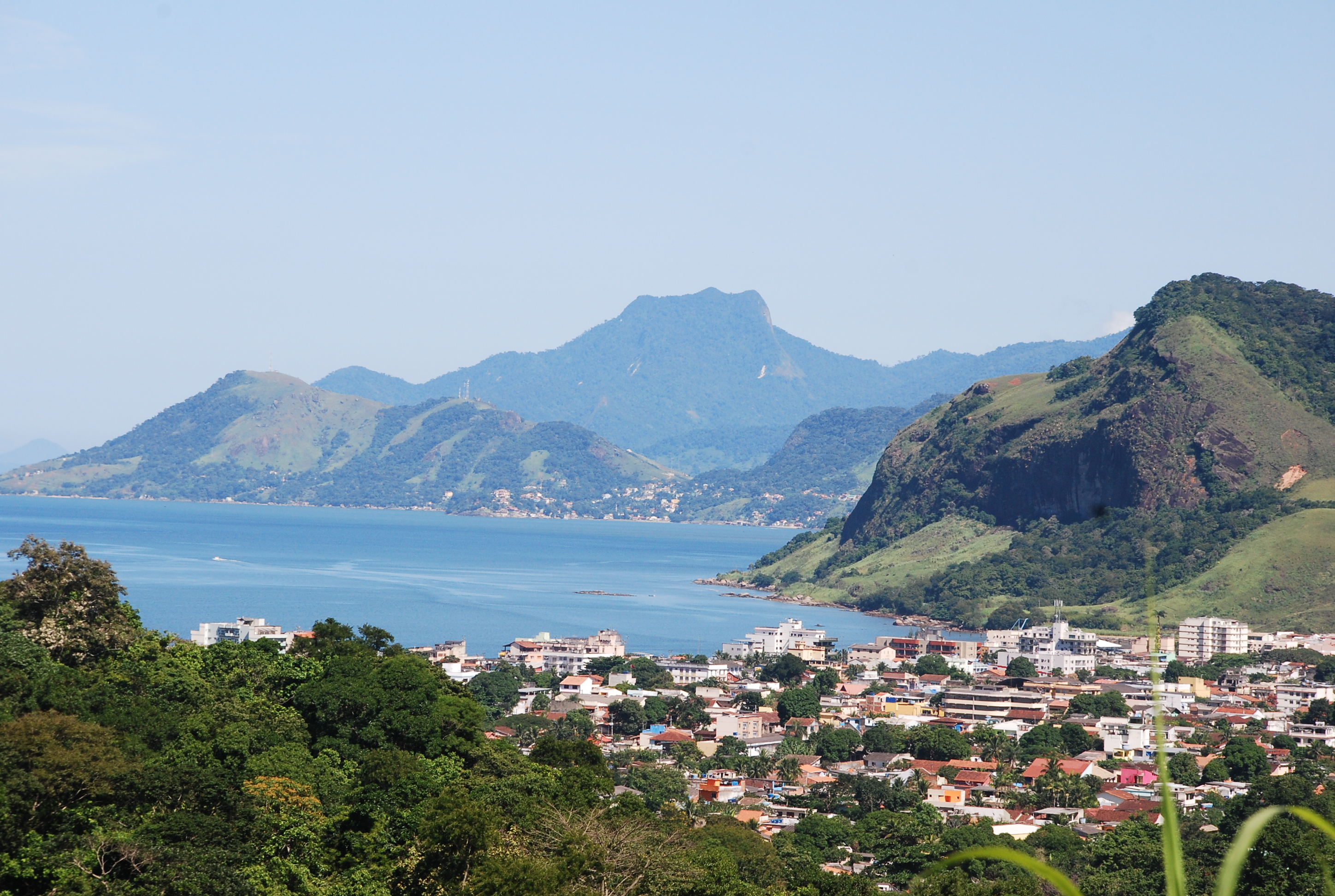 VISTA PANORÂMICA DE MURIQUI J. ALVES BAHIA